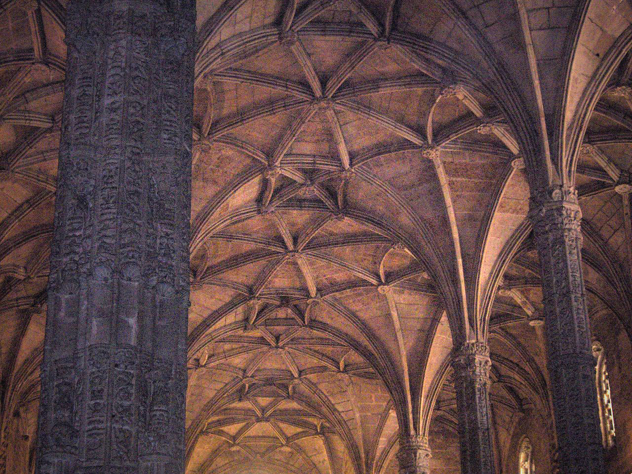 Rib-vaulted ceiling and ornamented columns in the church of the Jerónimos Monastery, Belém, Portugal